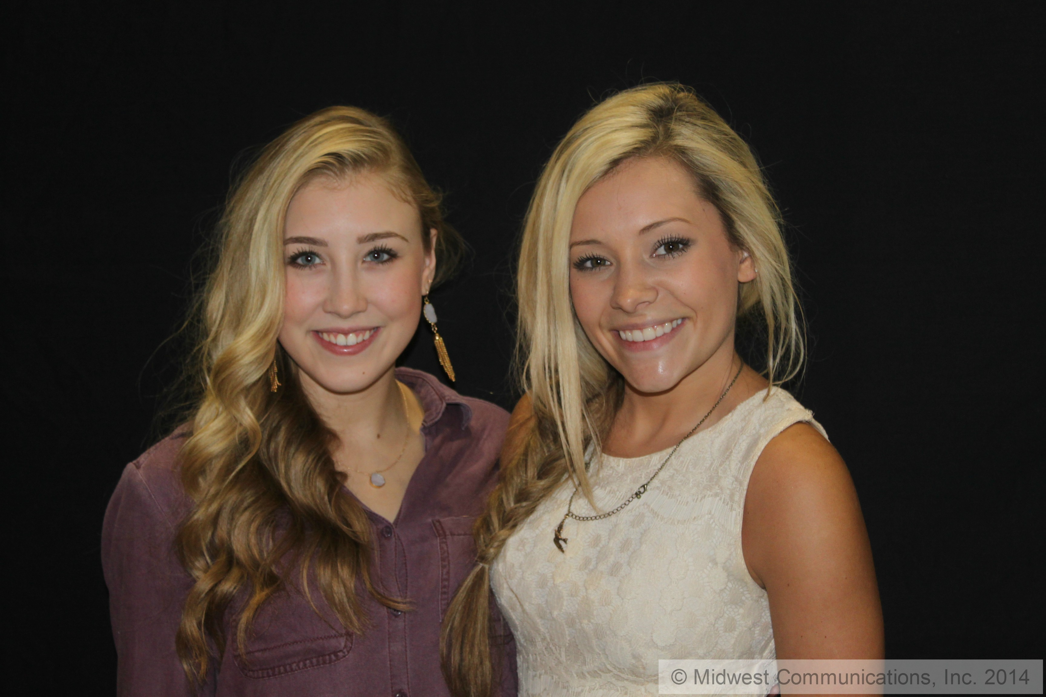 Madison Marlow (right) and Taylor Dye of the country music duo Maddie & Tae during a visit to a Midwest Communications country music station in Green Bay